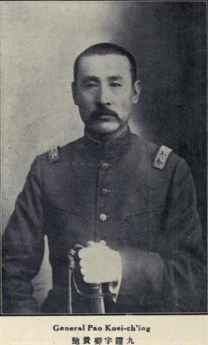 Bao Guiqing (Pao Kui-ch'ing), Tingjiu (1867 - 1934)